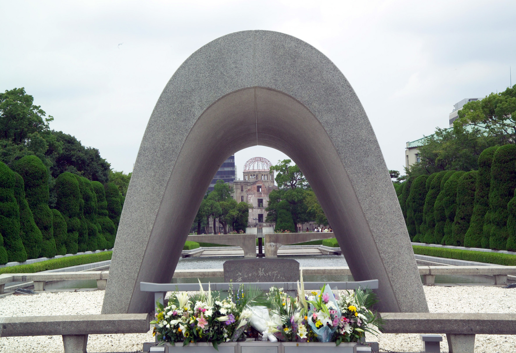 Cenotaph and Atomic Bomb Dome, Peace Memorial Park, Hiroshima, Japan. I took the photo.